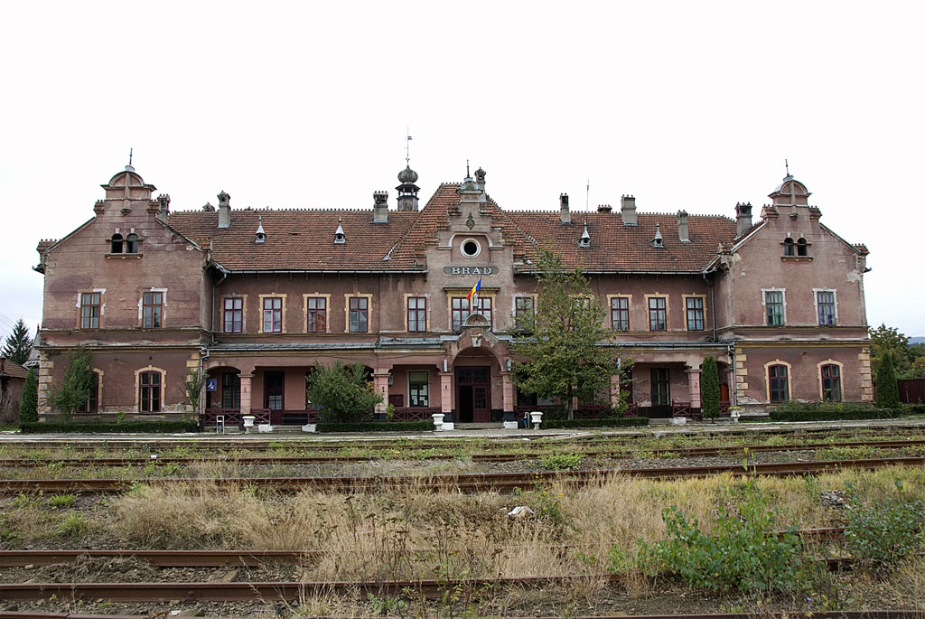 Brad - train station